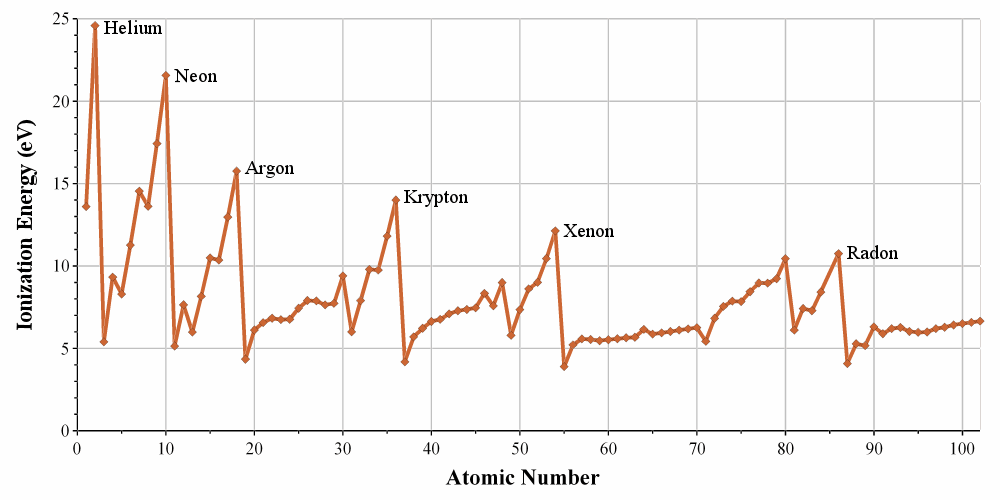 Ionization energies of neutral elements, in units of eV.